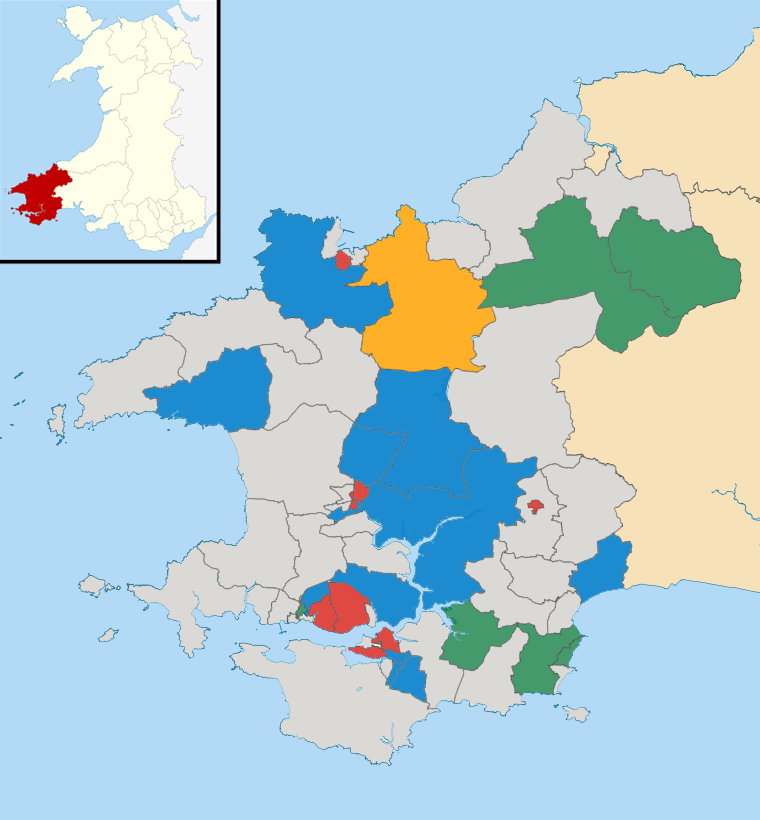 Results of the Pembrokeshire County Council election, May 2017, indicating the party affiliations of each councillor (one county councillor elected per ward) Colours: Conservative Plaid Cymru Labour Liberal Democrat Independent